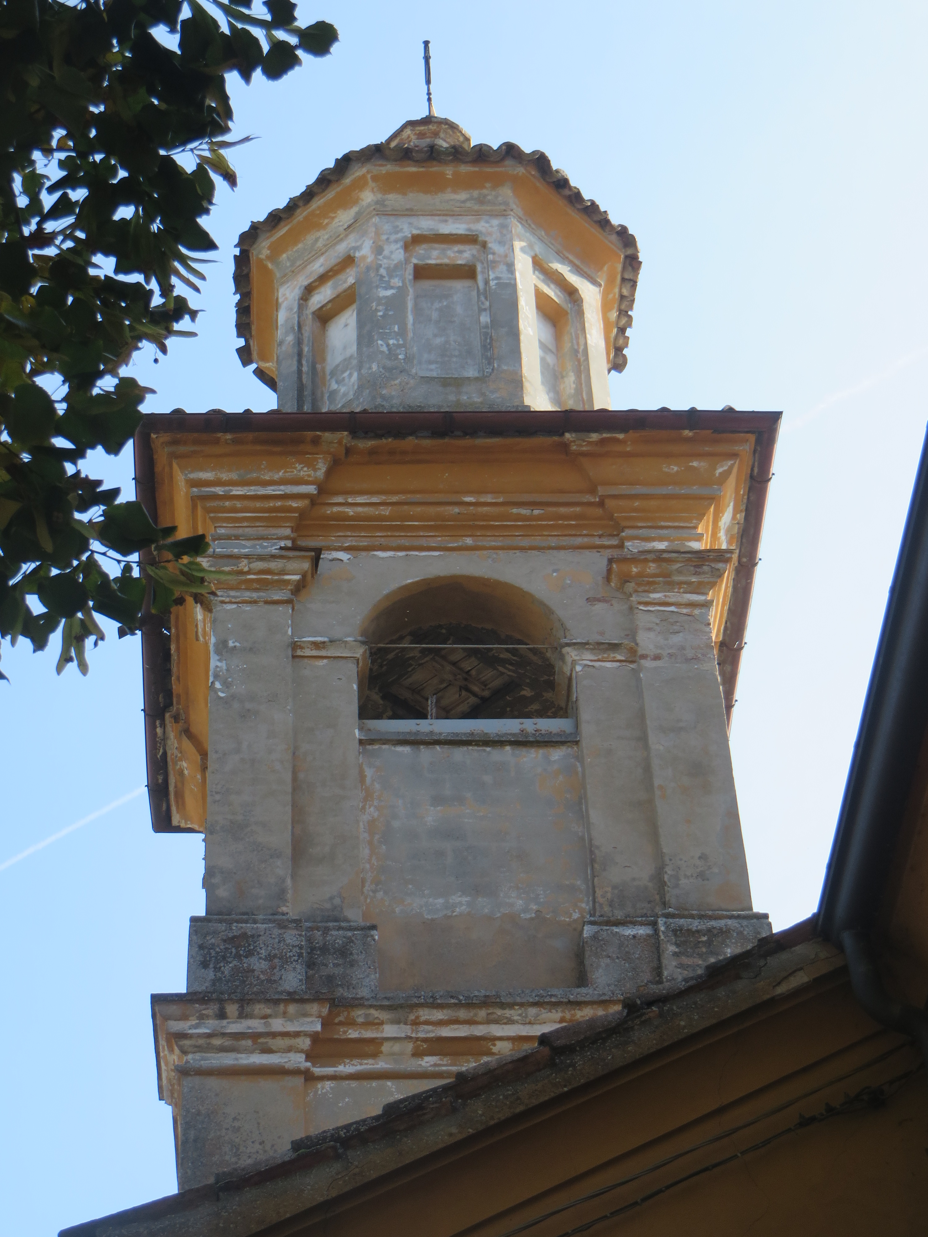 San Secondo Parmense Saint Peter Church steeple